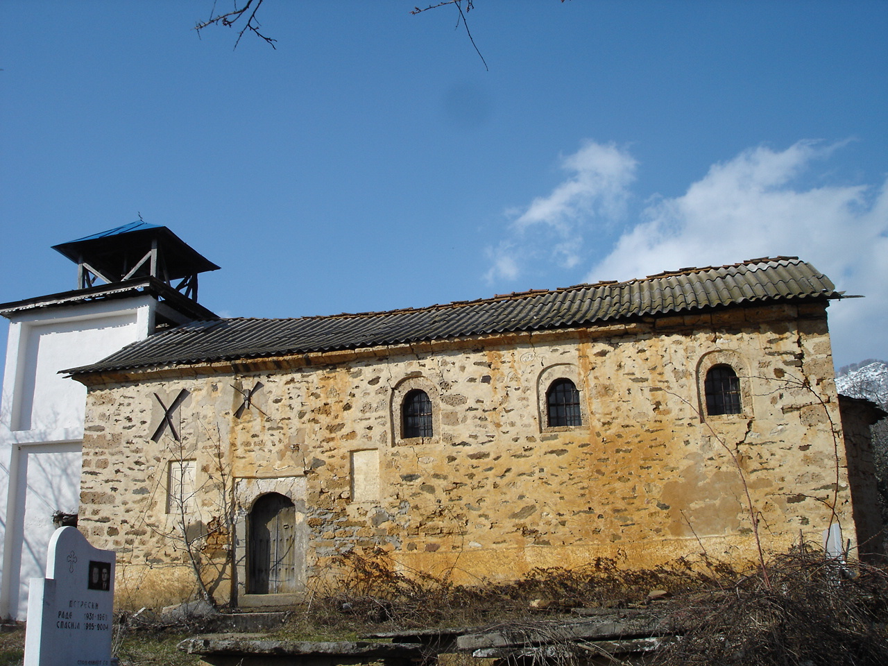 the church in village of Margari,Dolneni Municipality, Macedonia